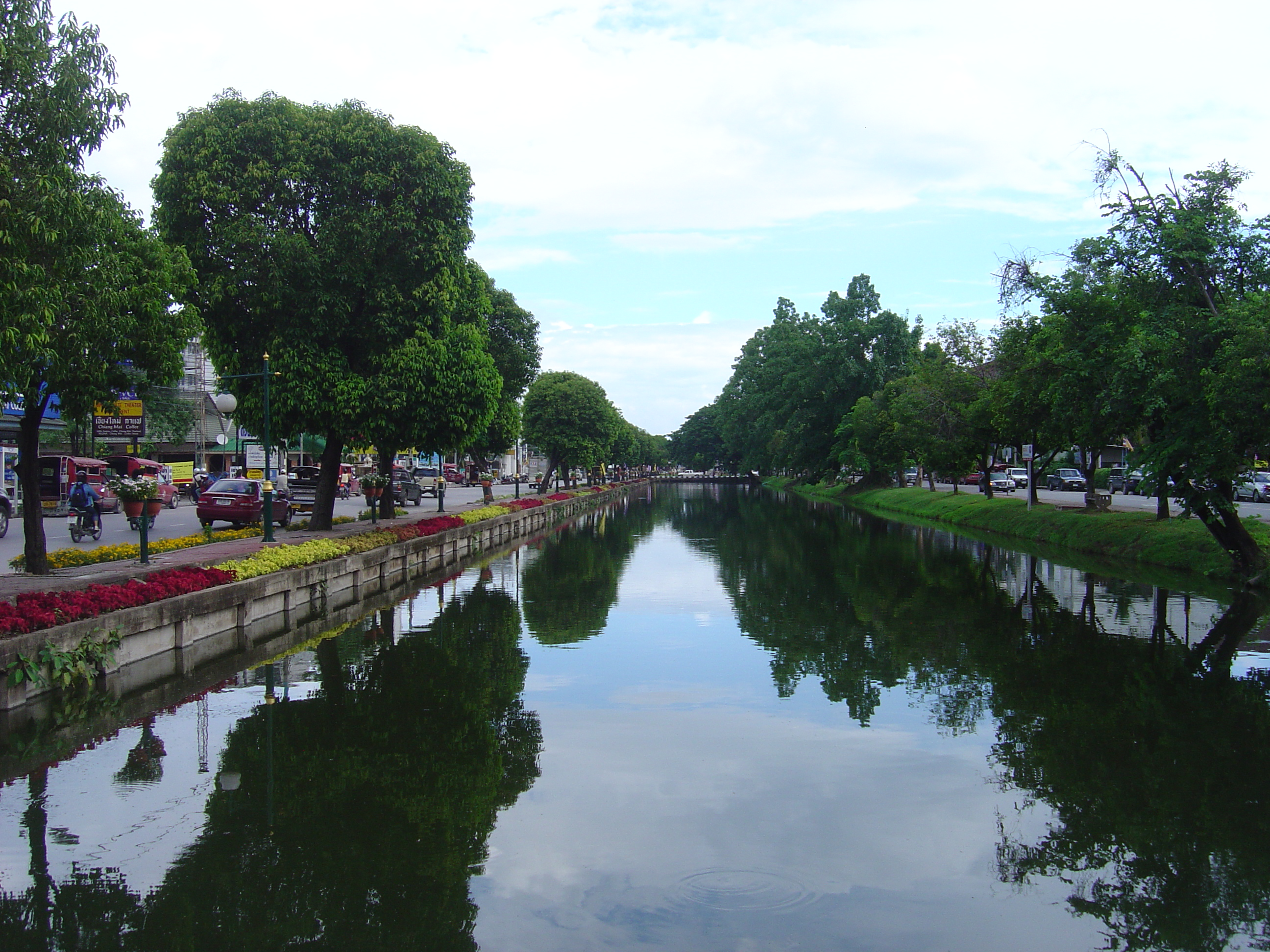 Moat surround Chiang Mai town -- Chiang Mai, Thailand